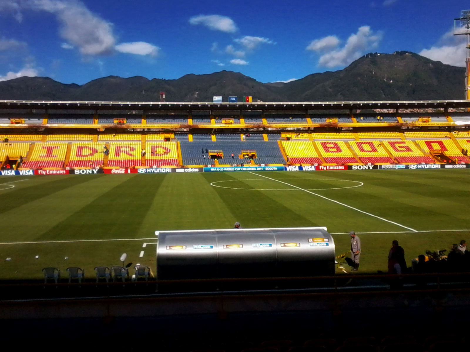 The Nemesio Camacho El Campín Stadium